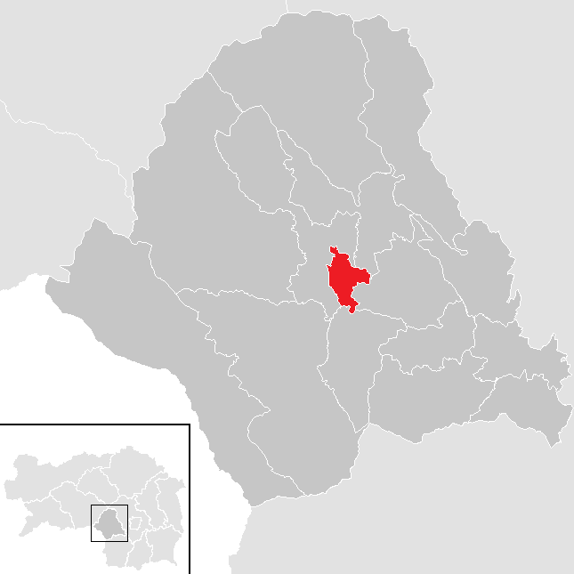 district Voitsberg